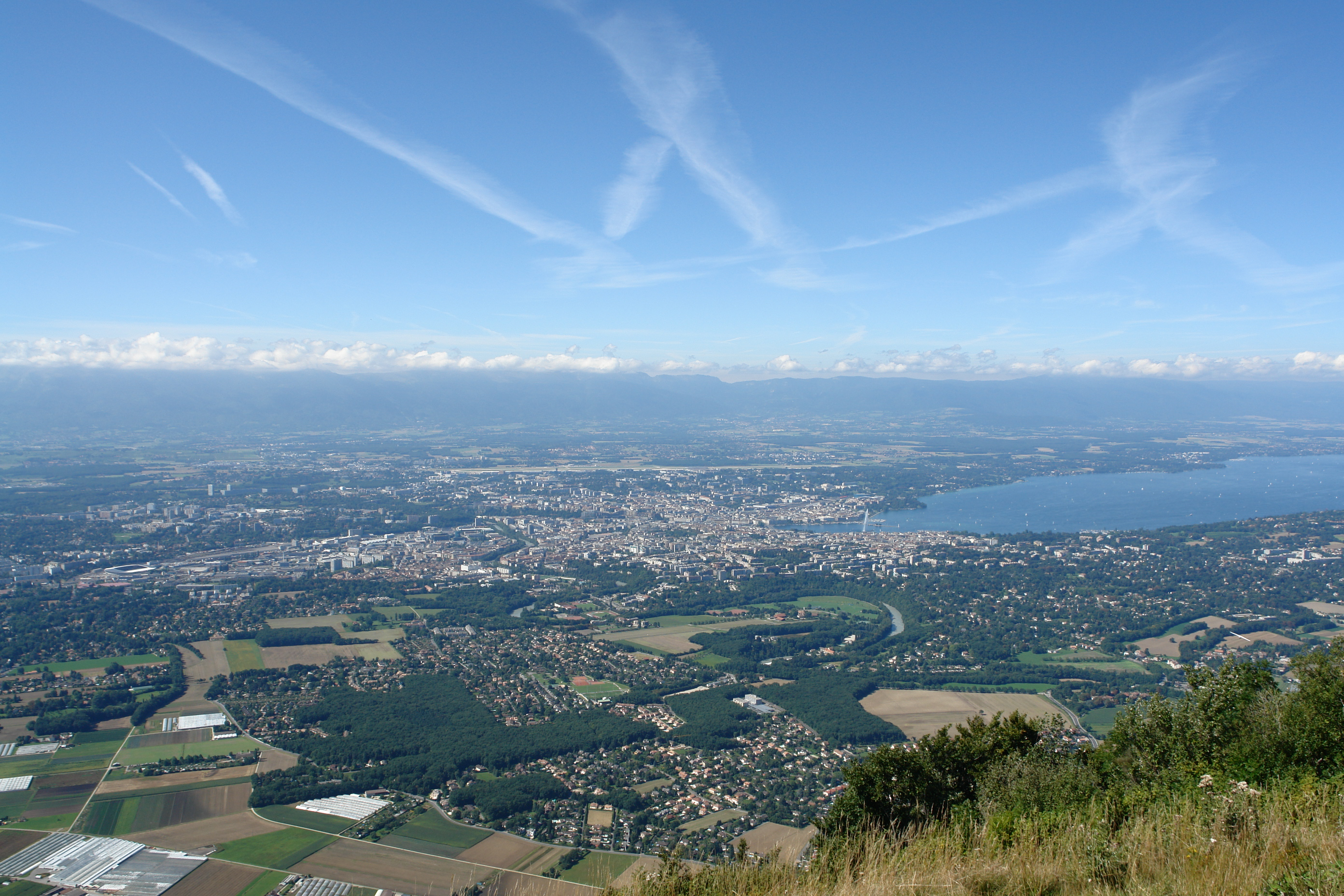 Geneva from Mount Salève.